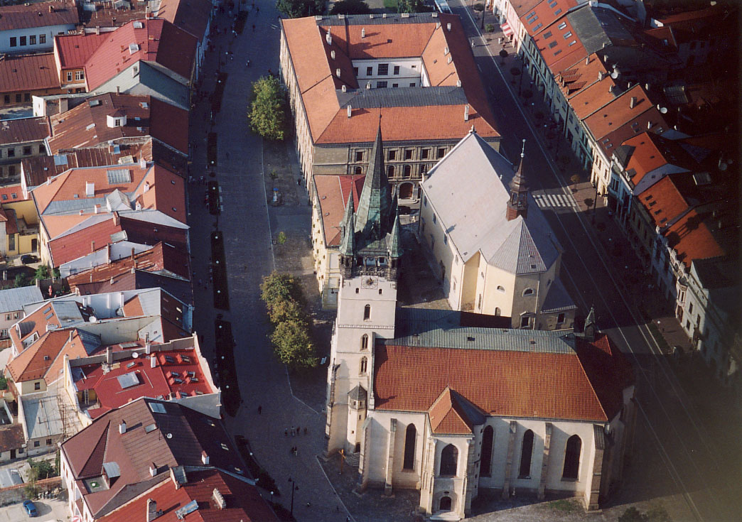 Church - Prešov - Slovakia - Europe.